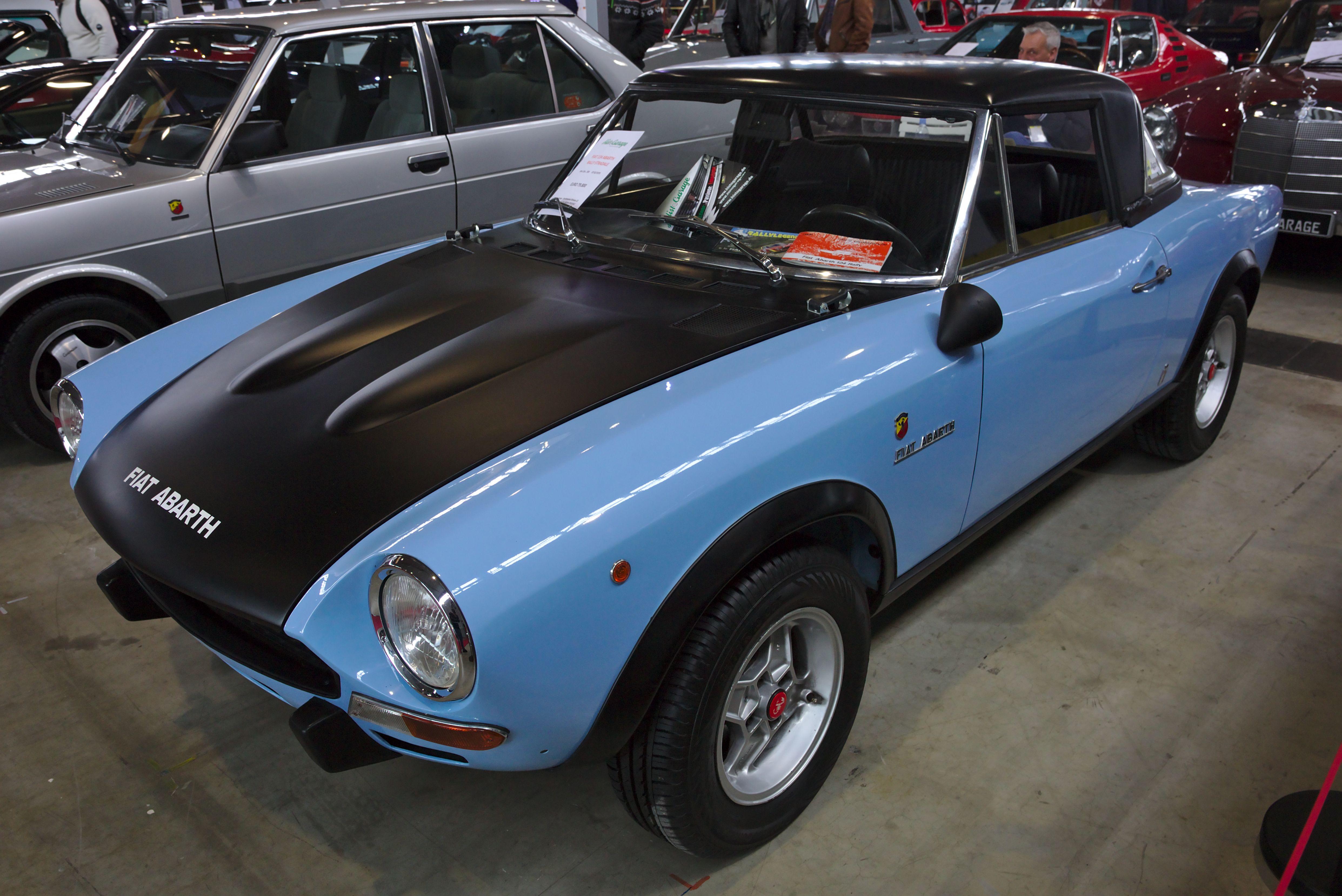 Fiat 124 Abarth Rally Stradale at Retro Classics 2018